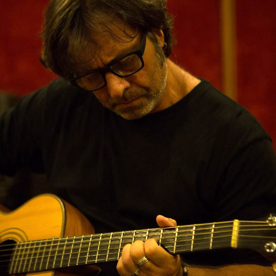 Edu Aguiar gravando seu mais recente álbum.